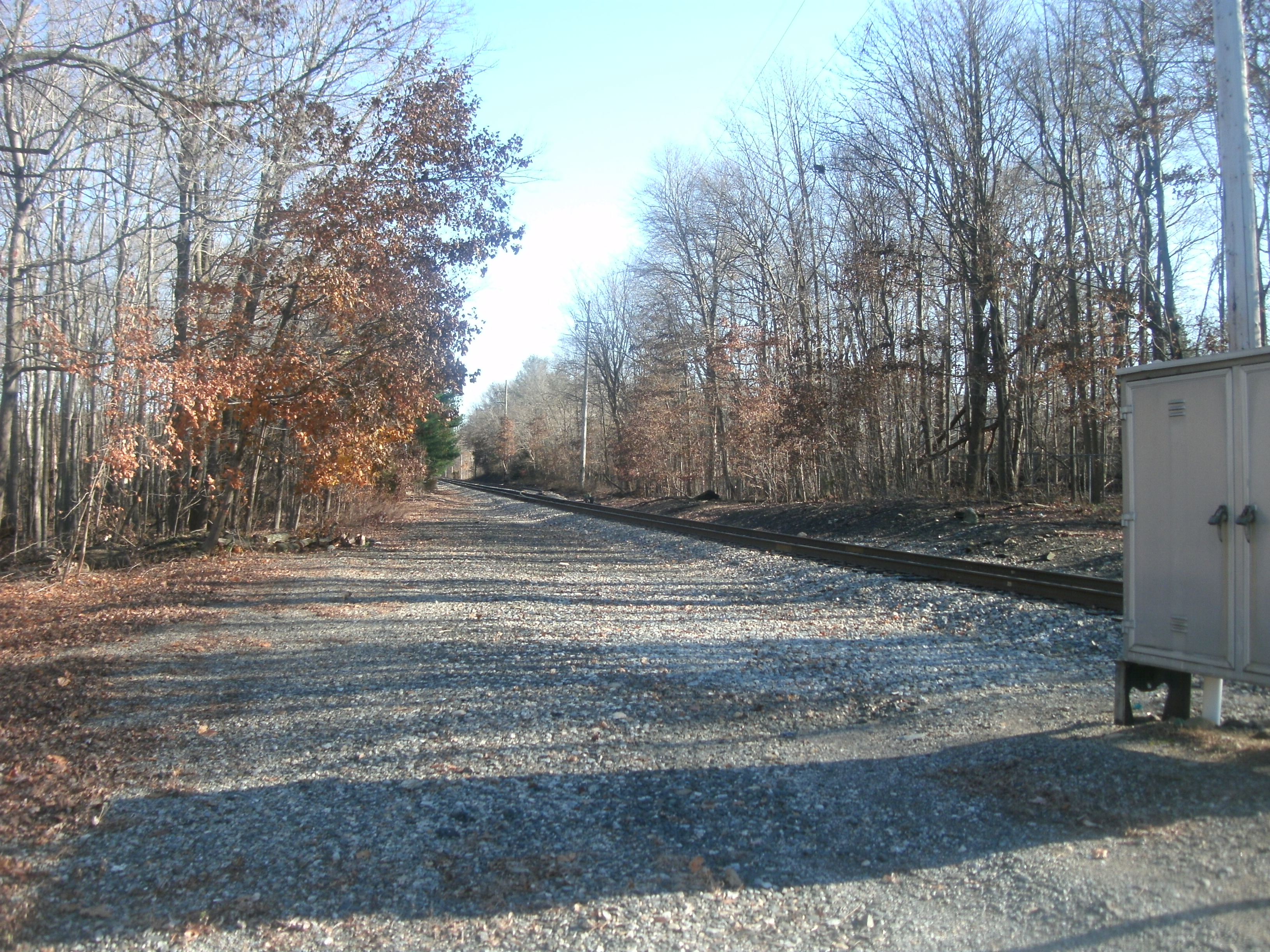 The former station site of Campgaw, a New York, Susquehanna and Western Railroad station in Franklin Lakes, New Jersey as seen in November 2011.